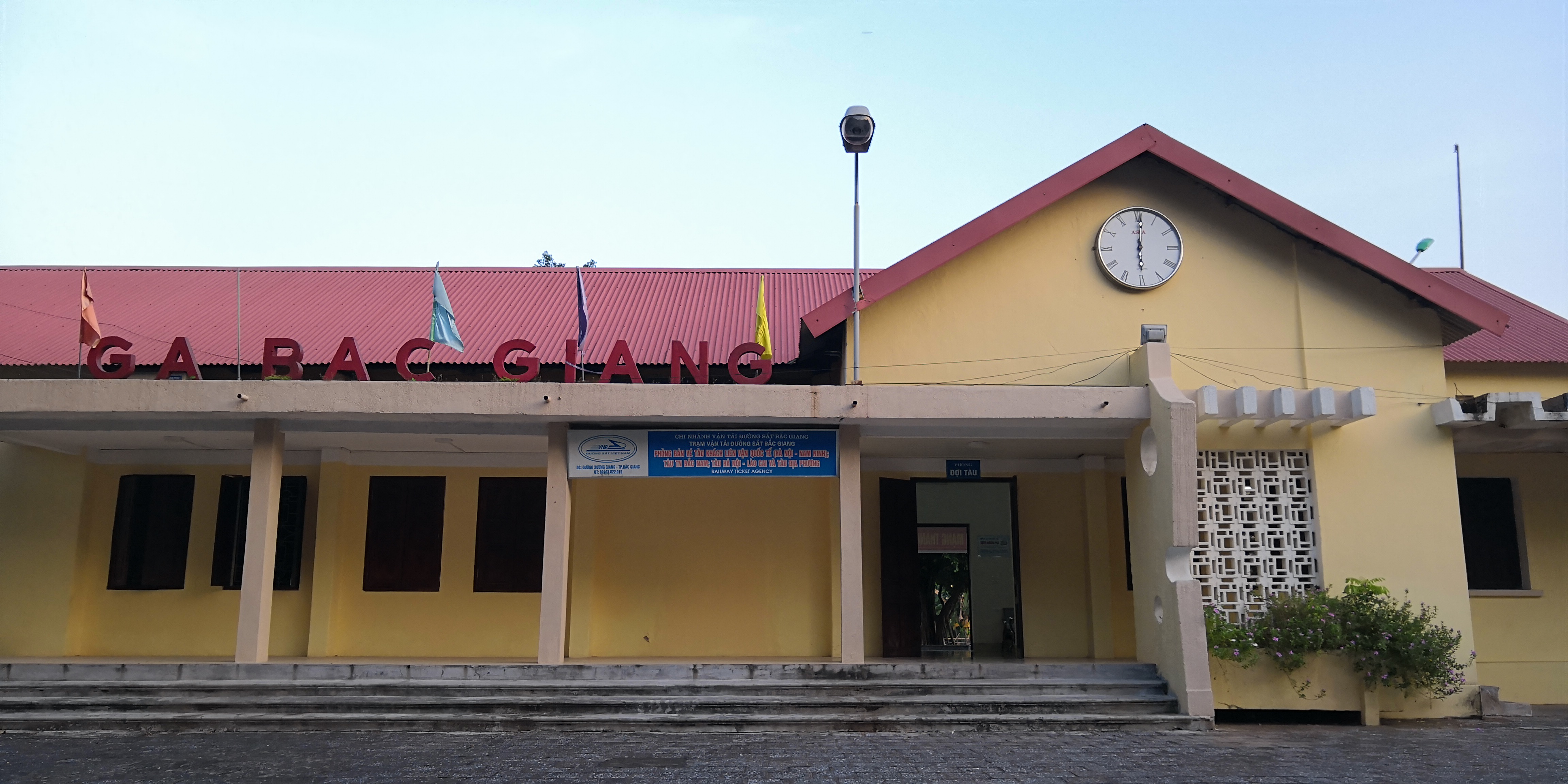 Bac Giang Railway Station (Sep 16, 2018)